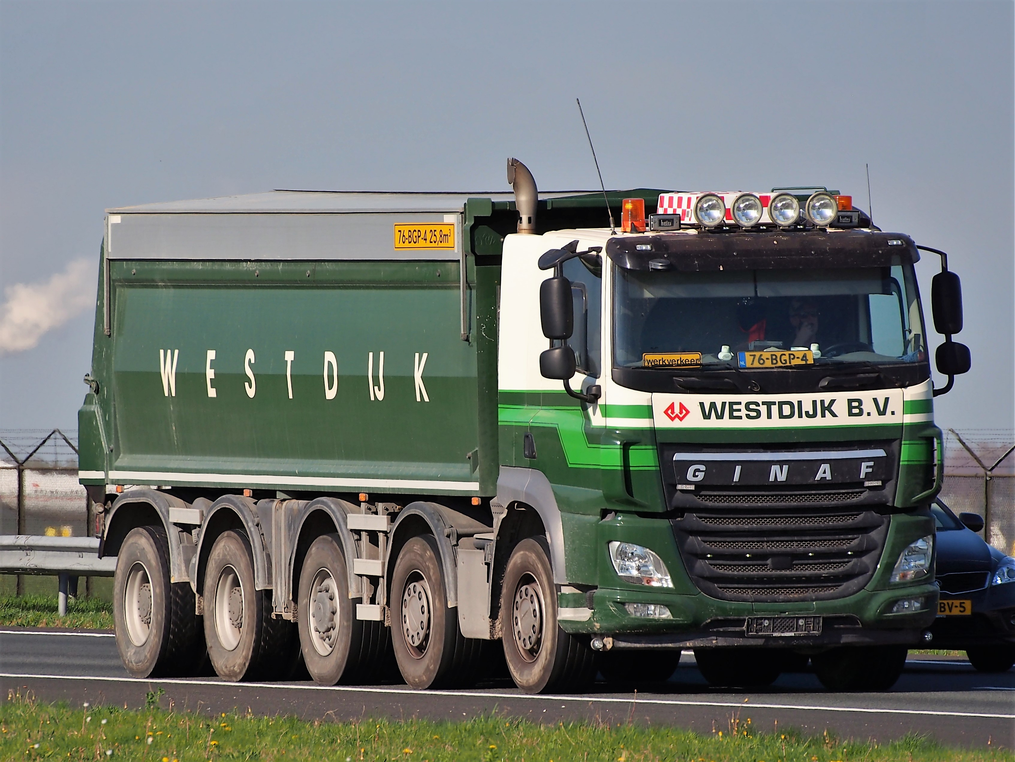 Photographed at the A5.